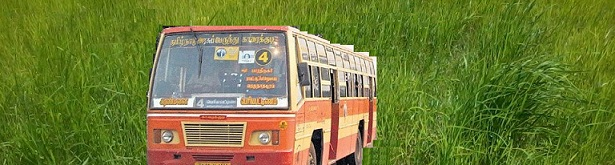 Periyapattinam Route No 4 TNSTC